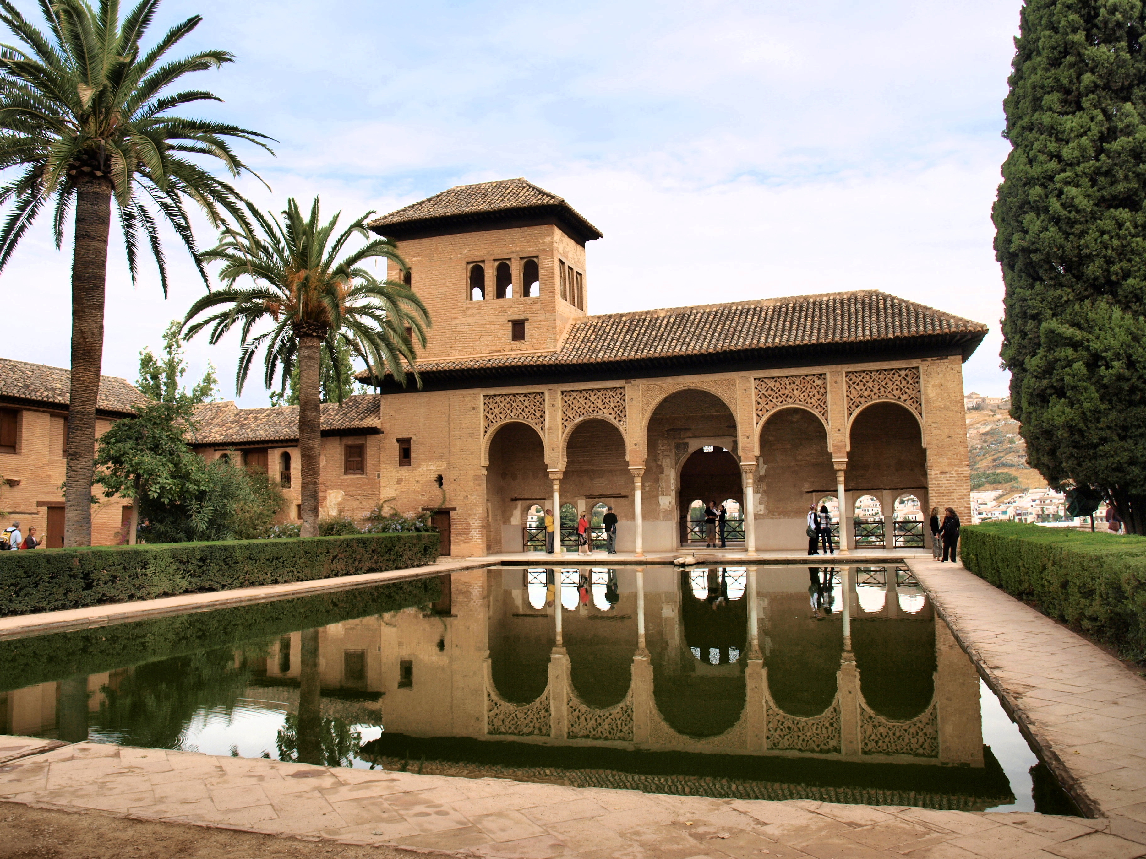 El Partal Palace, Alhambra, Spain